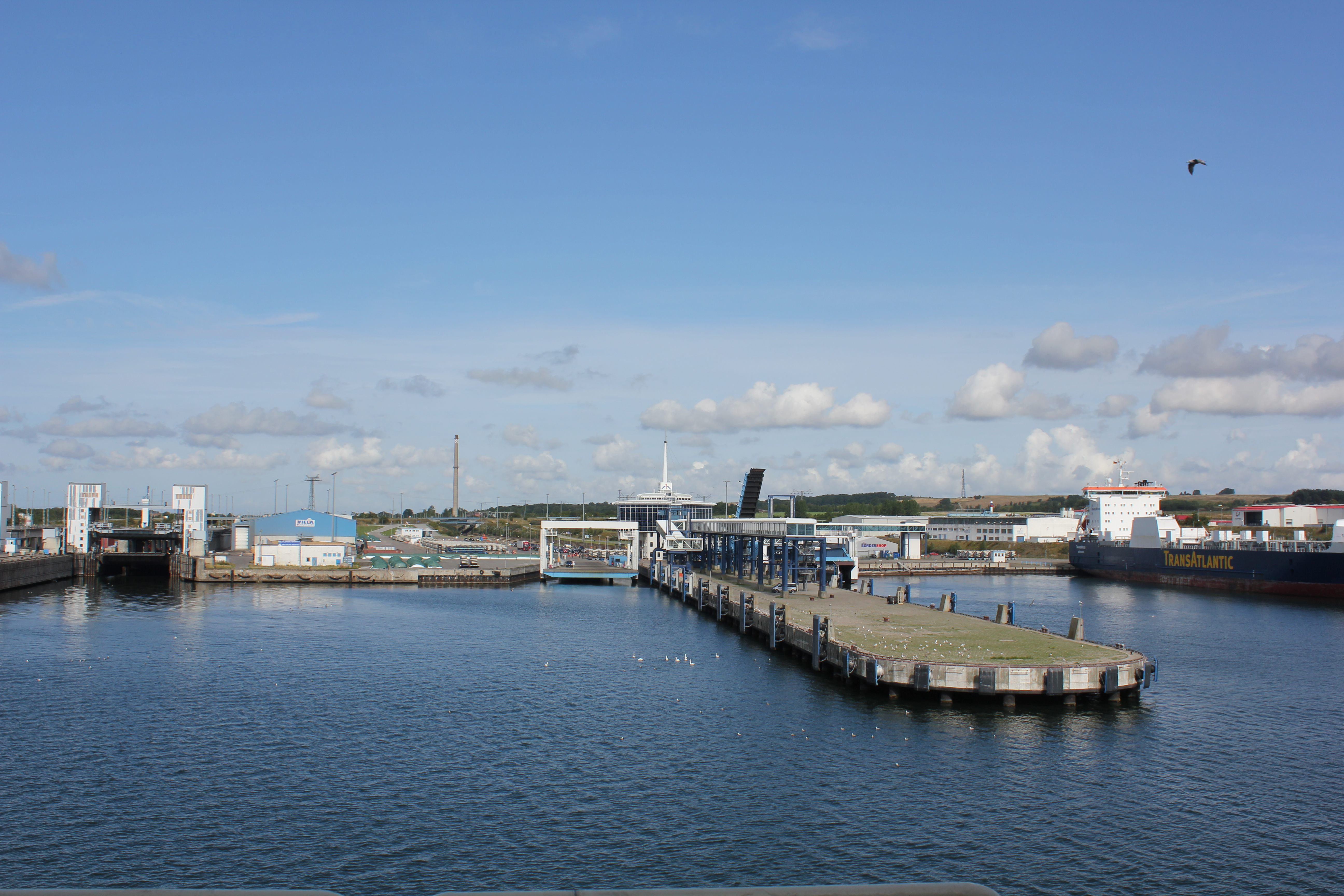 The ferry habour of Sassnitz, in the background the lake Wostevitzer See